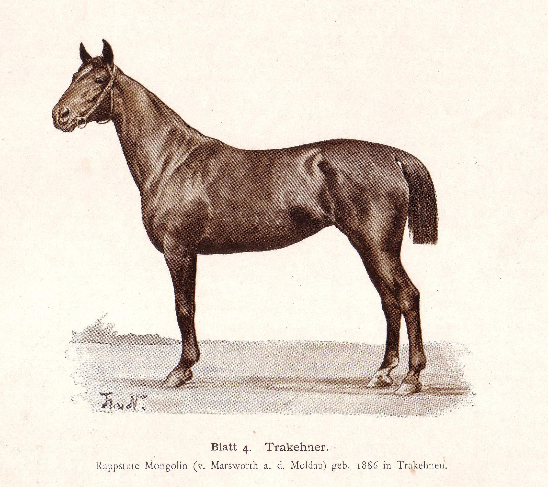 Trakehner: born in Trakehnen